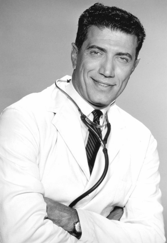 Publicity photo of Joseph Campanella from The Nurses.